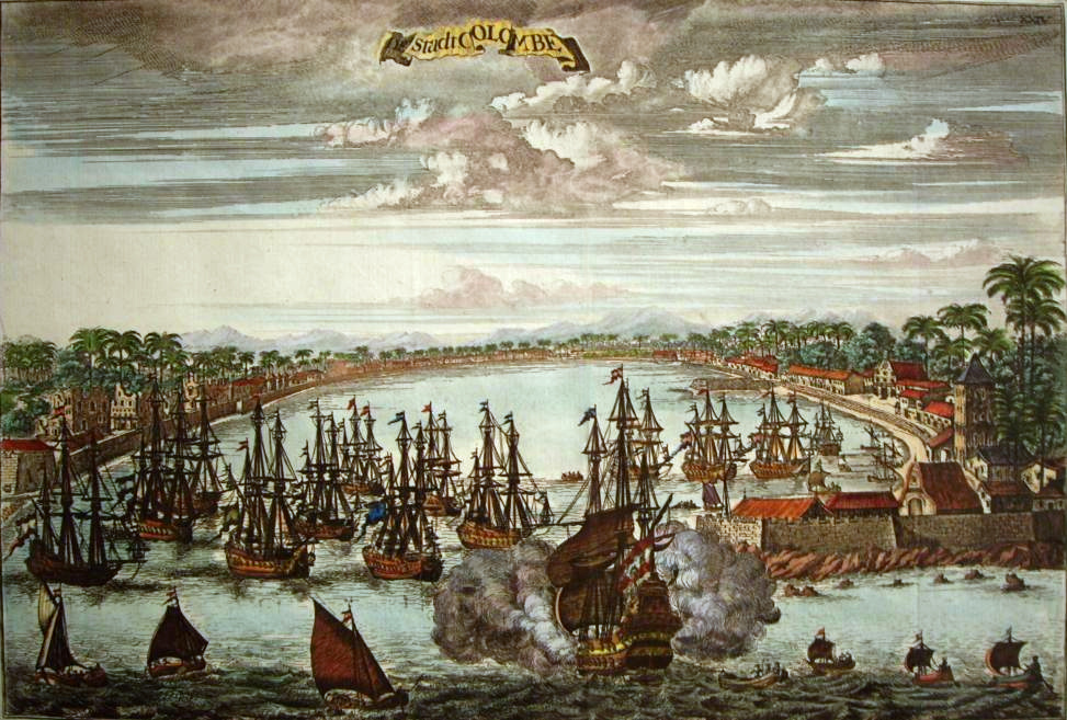 Copper engraving, 'De Stadt Colombe' [The Town of Colombo], from Dutch book c. 1775, after original engraving by Johannes Kip of c. 1680